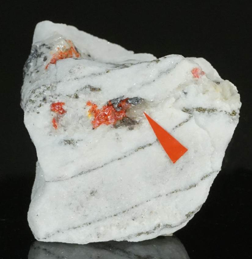 Grey edenharterite with red realgar. Ex Valentin Sicher collection. From Lengenbach Quarry, Fäld, Binn Valley, Wallis, Switzerland.